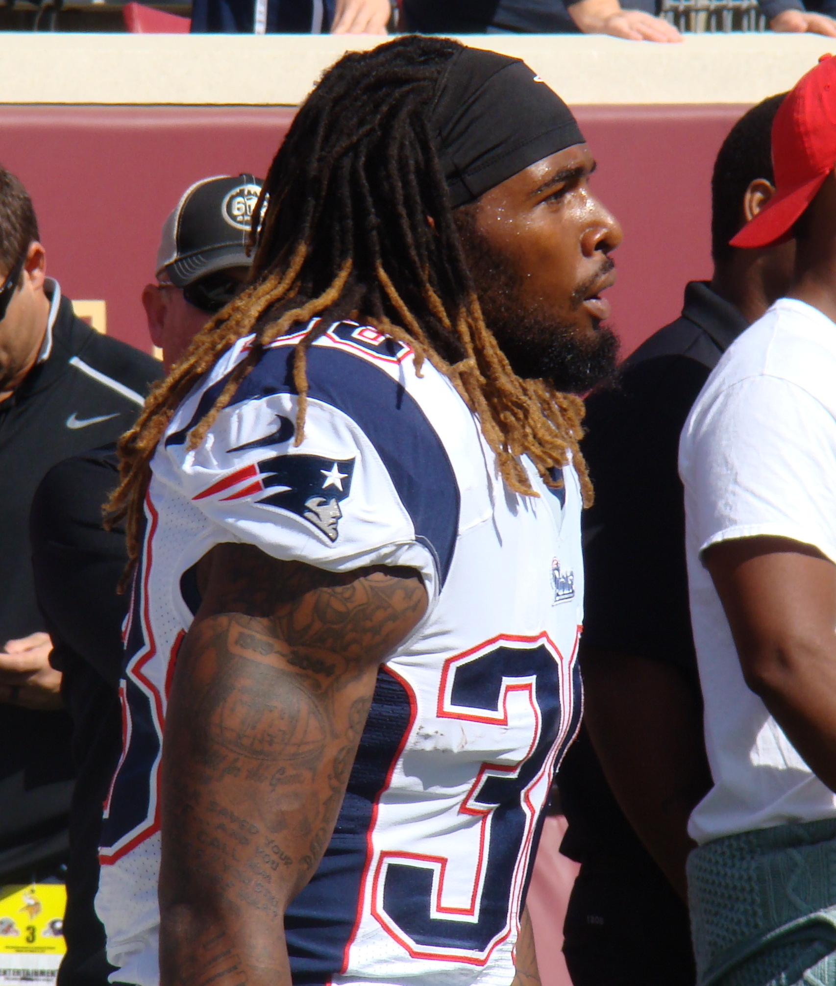 Bolden in September 2014.